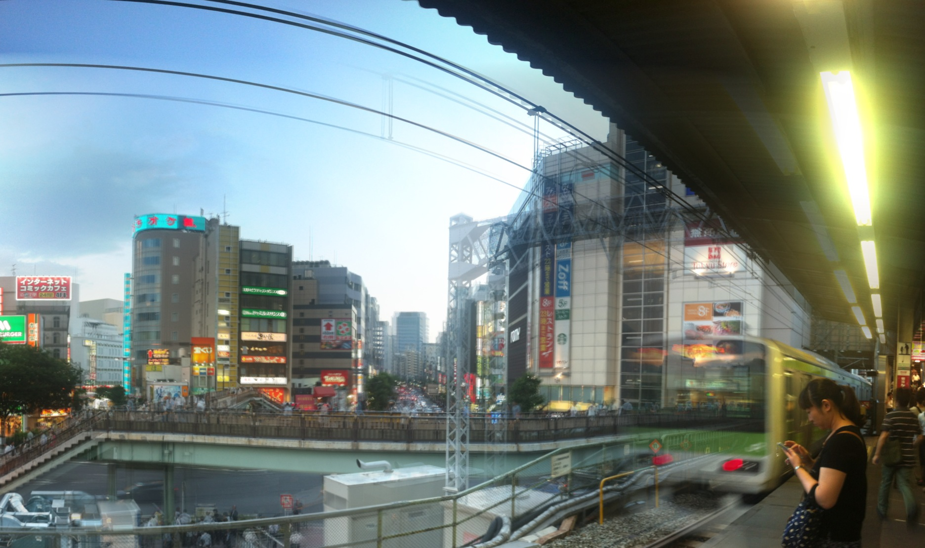 JR五反田駅のホームと電車 JR gotanda station platform and train